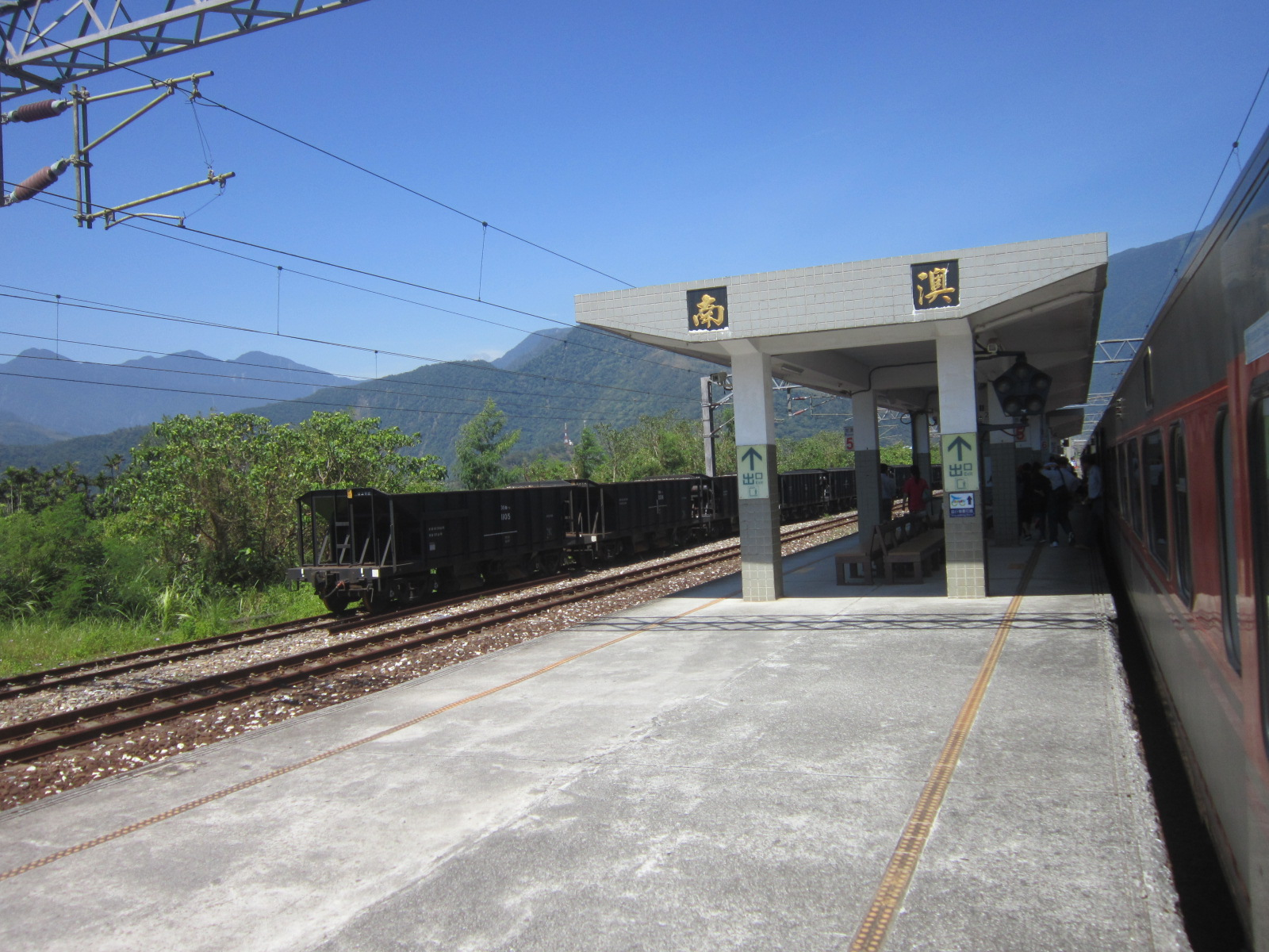 Nanao_Station_Platform